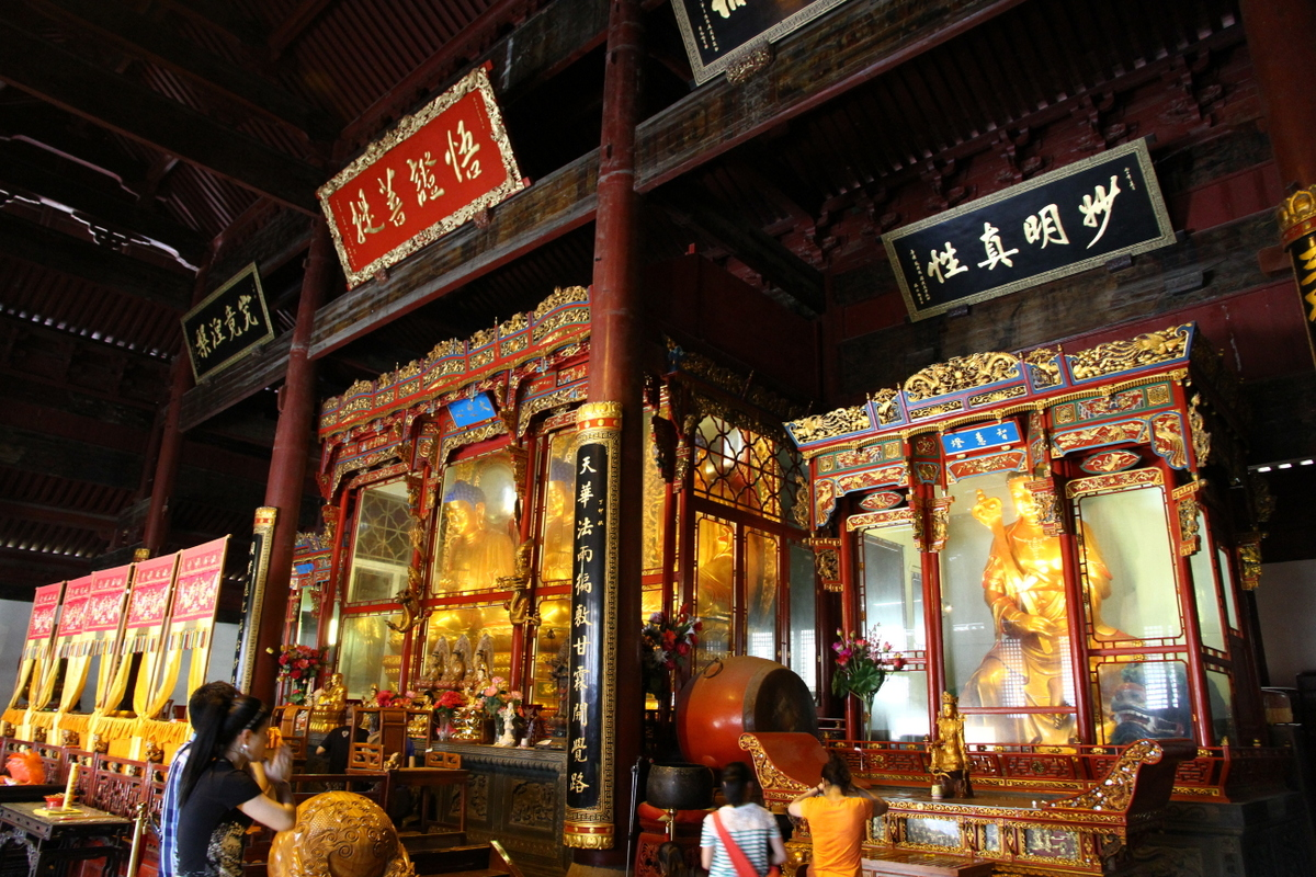 Statues of Budda in Fayu Temple on Putuo Shan island in China